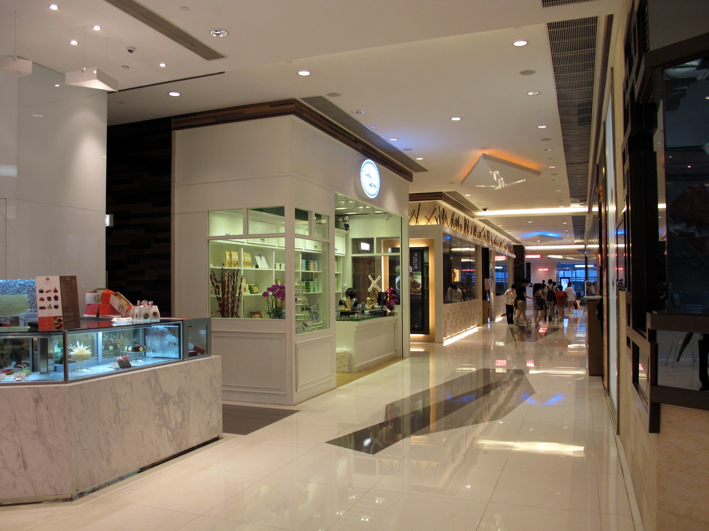 The ONE Level 4 F&B Outlet